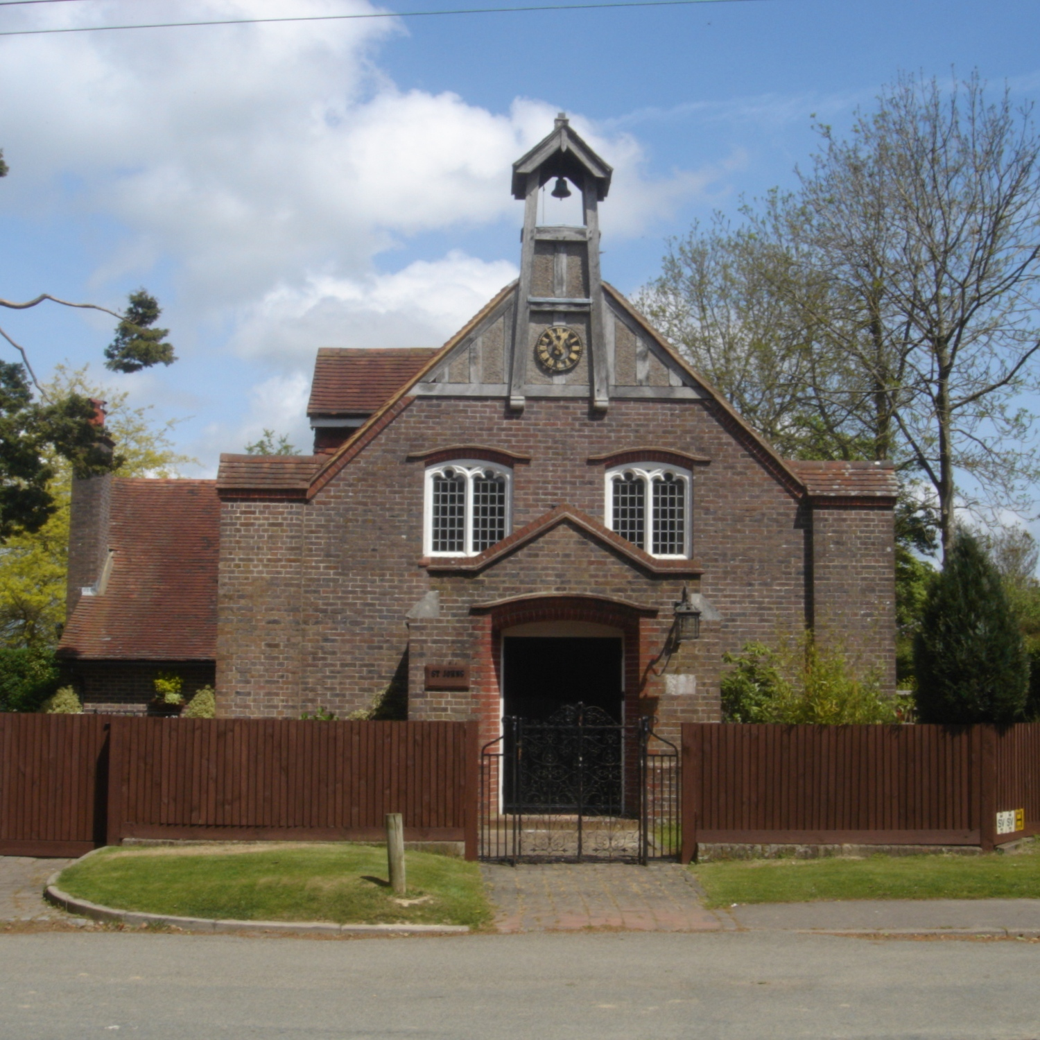 Former Roman Catholic church of St John the Evangelist, Ansty, West Sussex, England. Built in 1905, closed about 1962 and now a house